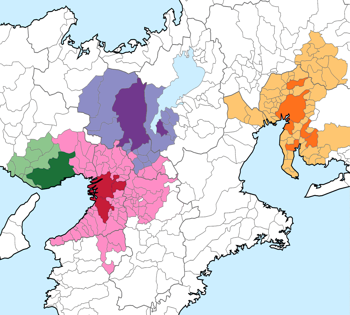 Urban Employment Areas of Nagoya (yellow), Kyoto (blue), Osaka (red), ane Kobe (green) in 2015.